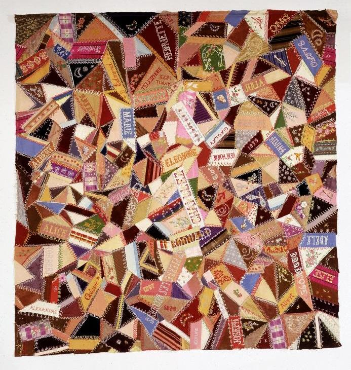 Crazy quilt, 1897, 180 cm